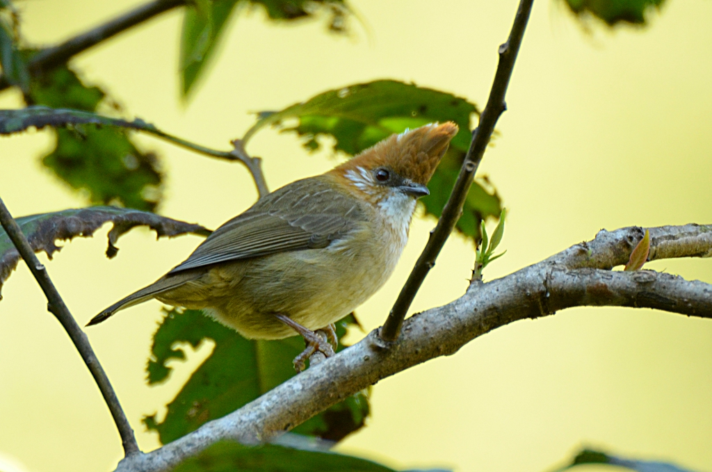 White-naped Yuhina in Mishmi Hills, Arunachal Pradesh, India